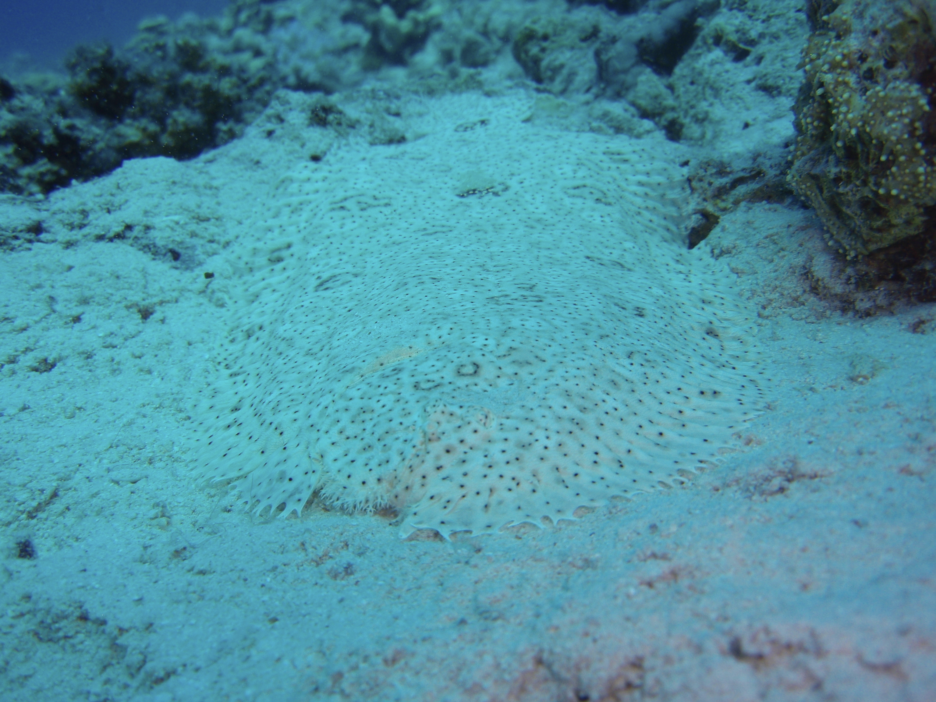 Pardachirus marmoratus. Red Sea Moses sole.